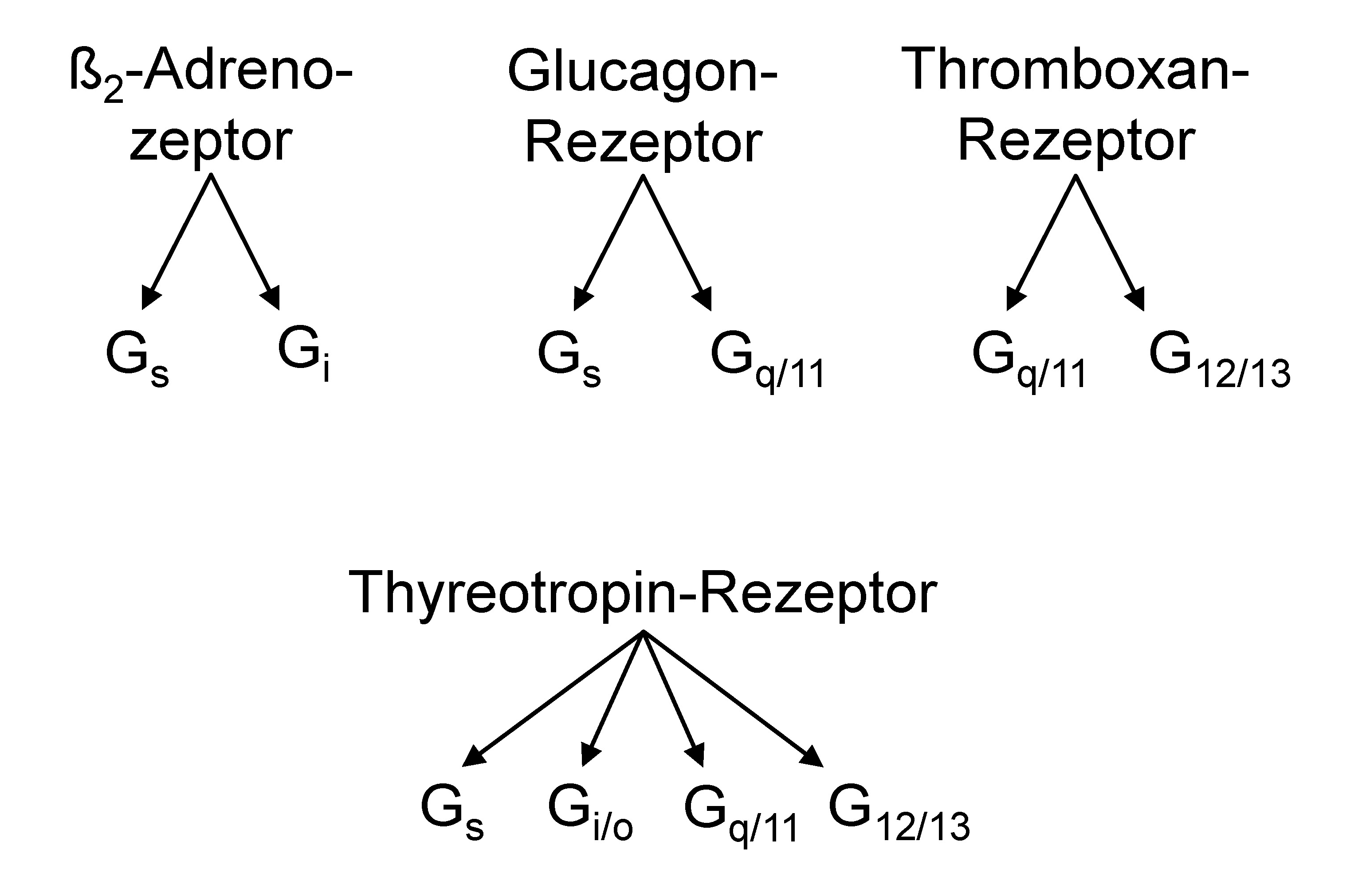 Coupling of several G-protein-cpuled receptors to specific G-proteins